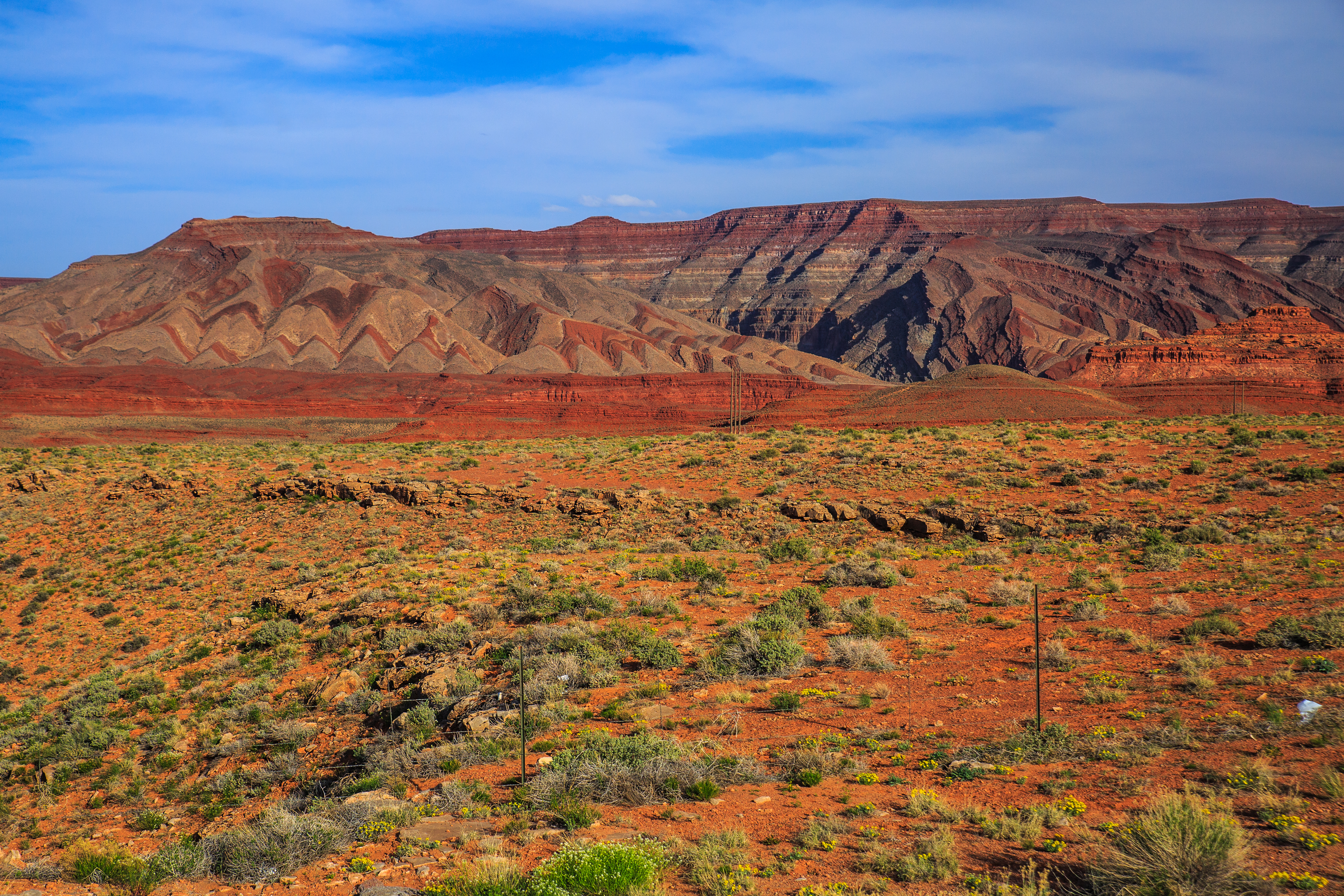 along Hwy 95 in SE Utah...shortcut along Hwy 261...